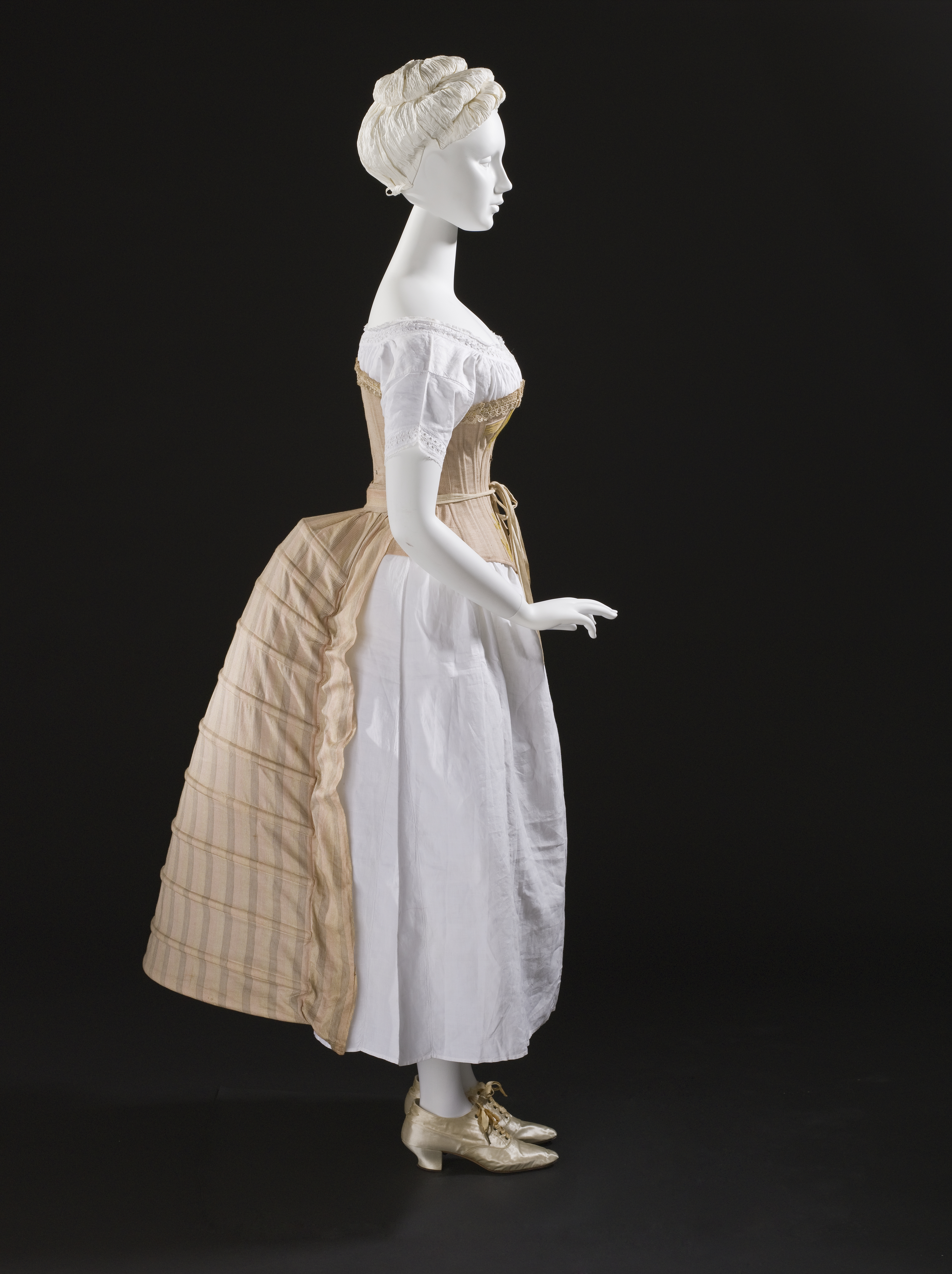 Woman's bustle, England, c. 1885. Cotton twill, cotton-braid-covered steel, and cotton-braid cord. Corset, England, c. 1865-75. Cotton with cotton lace trim. Chemise, England, c. 1850-70. Linen plainweave with cotton cutwork embroidery (broderie anglaise) and cotton lace. Shoes, Europe or United States, 1875-1900. Silk satin and leather.